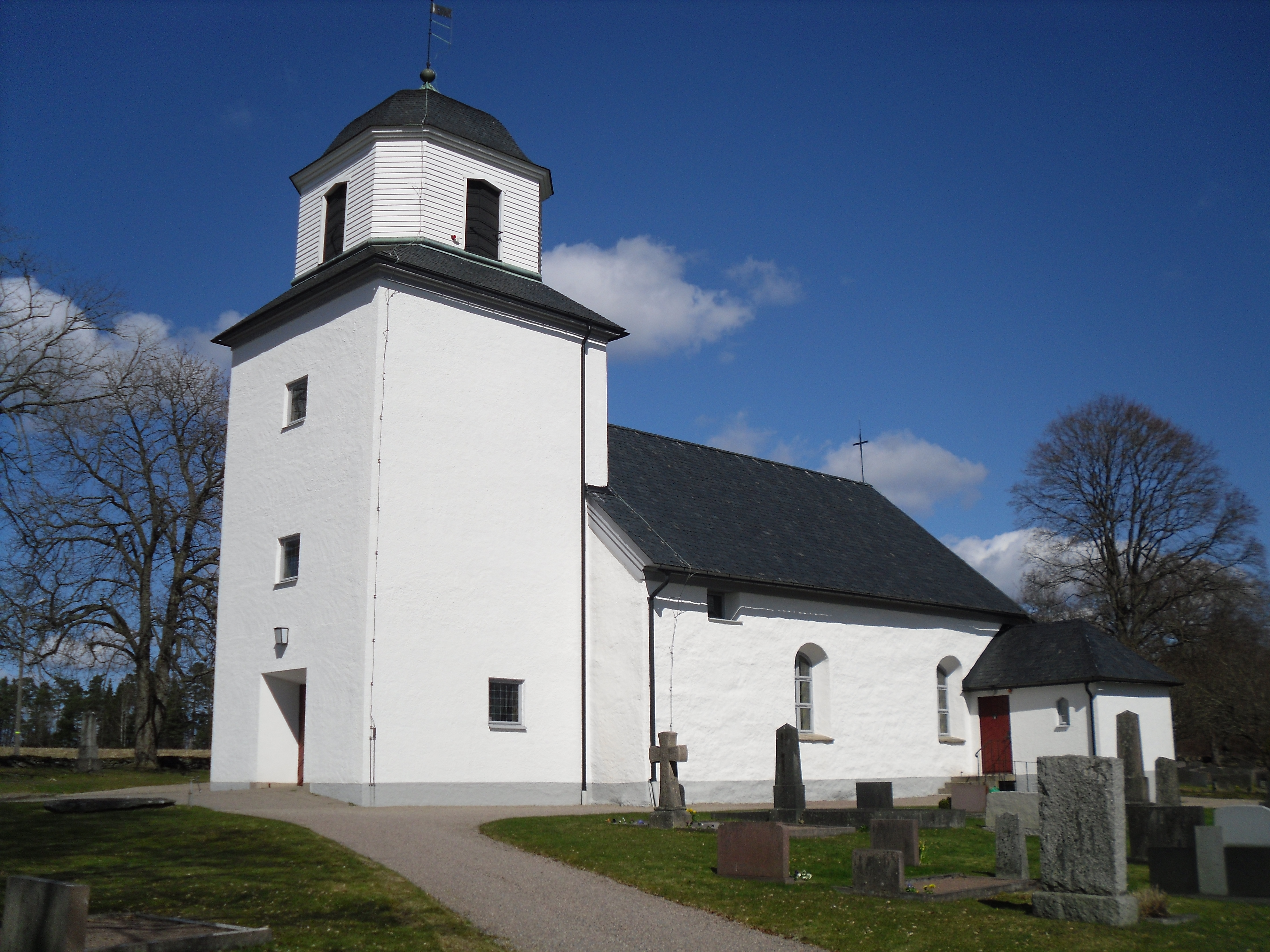 Östad Church, Västergötland, Sweden